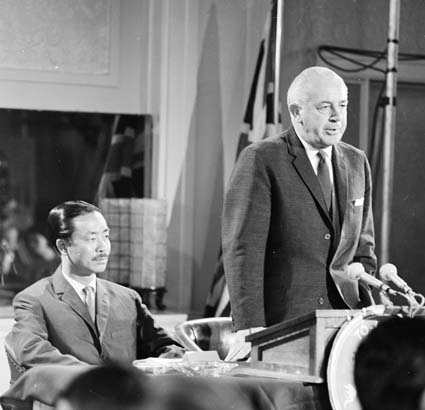 Prime Minister Harold Holt of Australia with Prime Minister Nguyễn Cao Kỳ of South Vietnam on Kỳ's visit to Australia in 1967.